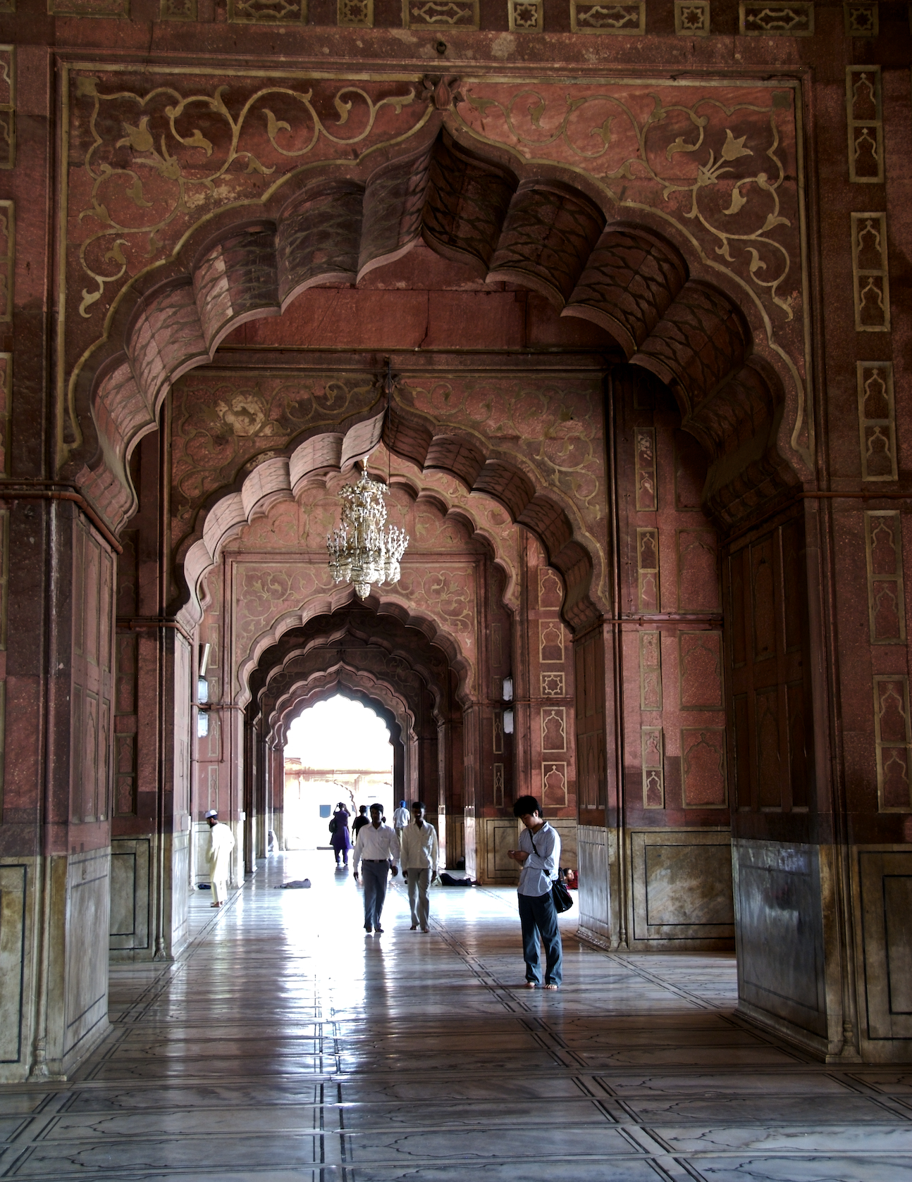 Detail of the inlay work on the arches inside Jama Masjid, Delhi.